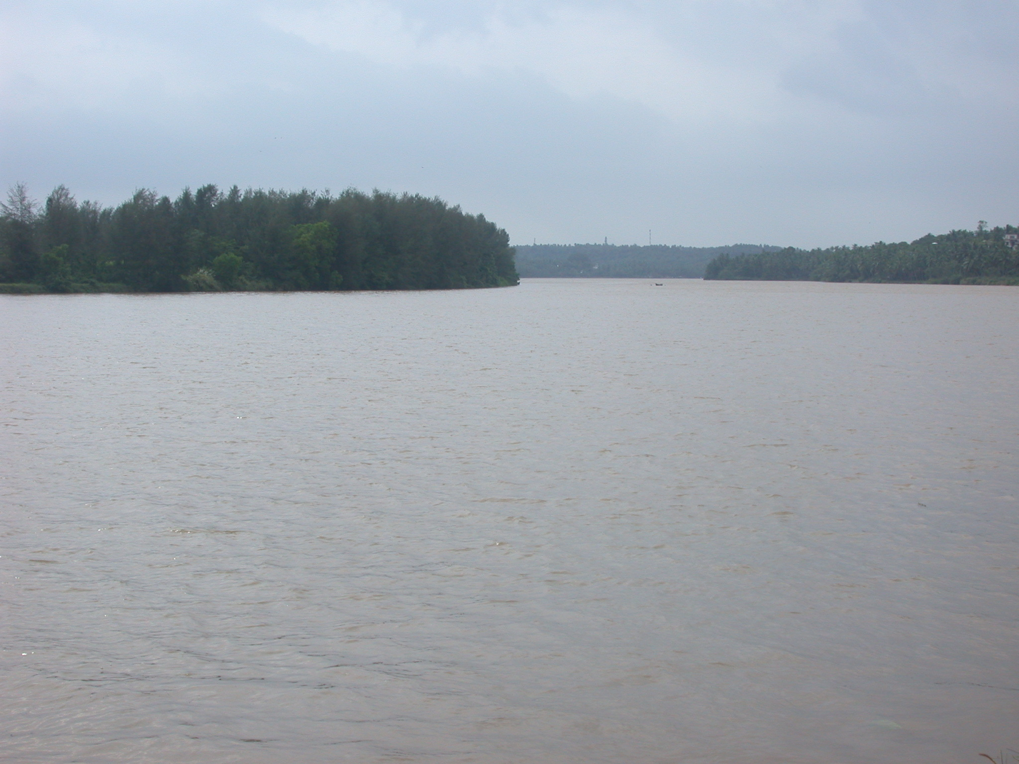 River Chandragiri. A view from Pulikunnu, Kasaragod Town.